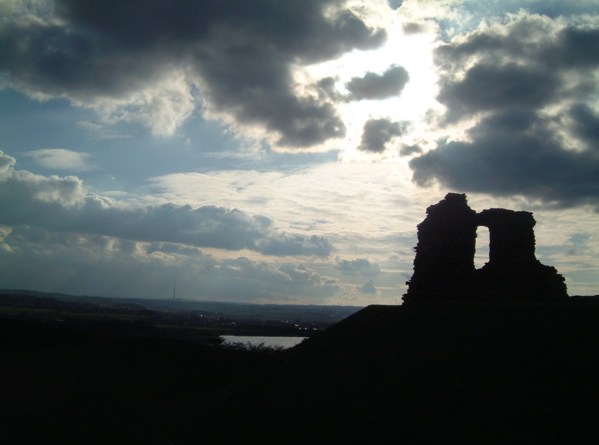 Picture of the ruins of Sandal Castle near Wakefield, West Yorkshire, taken by DKJackson in April 2004. The lake of Pugneys Country Park is visible in the centre, and Emley Moor Transmitter, Emley Moor is shown on the horizon.